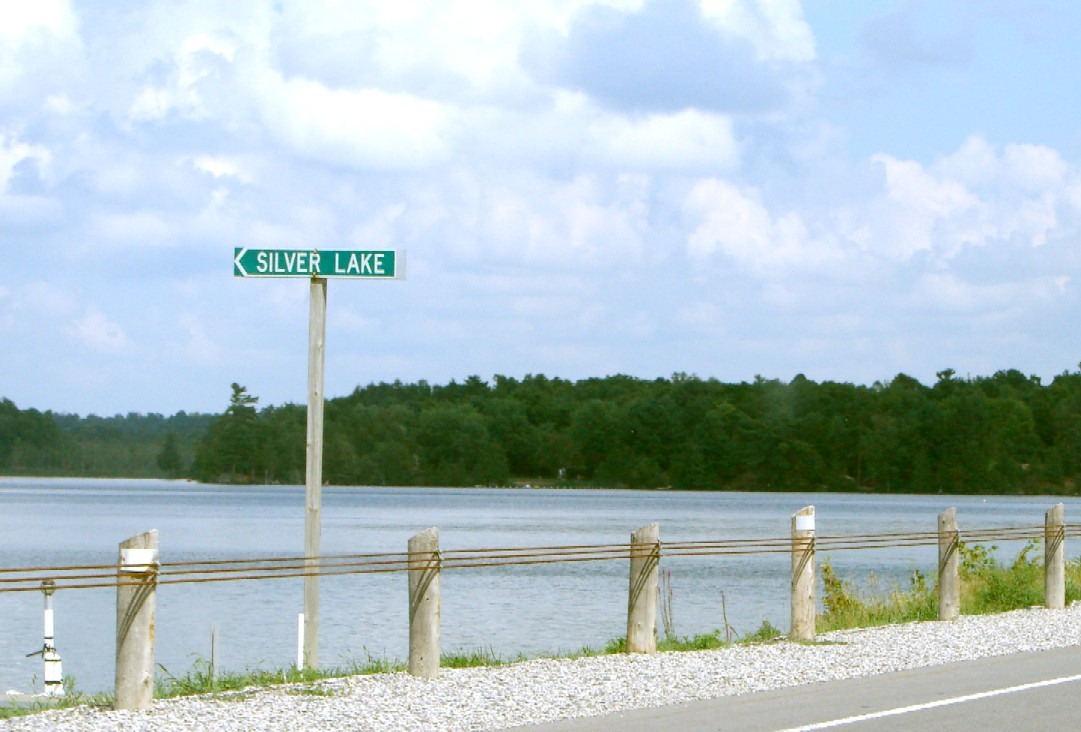 Silver Lake (Frontenac and Lanark counties), Ontario, Canada